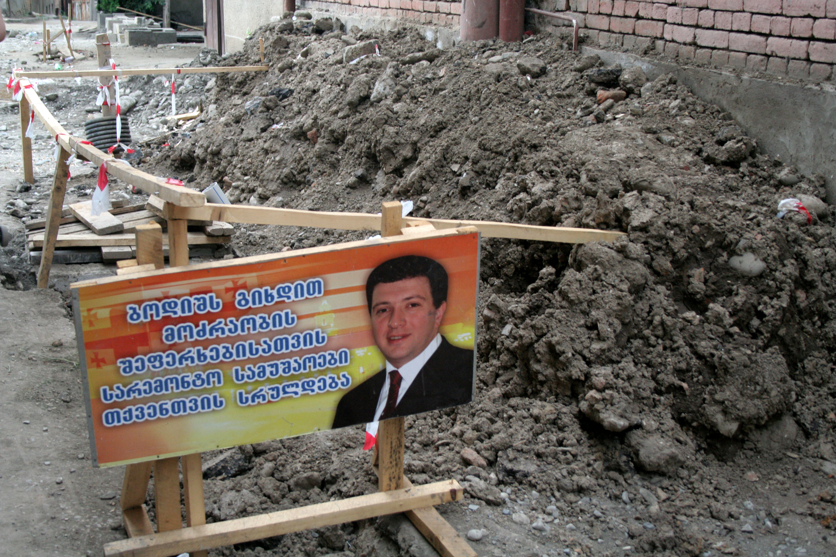 Apologize for disrupting the traffic. We are restoring the street for you.